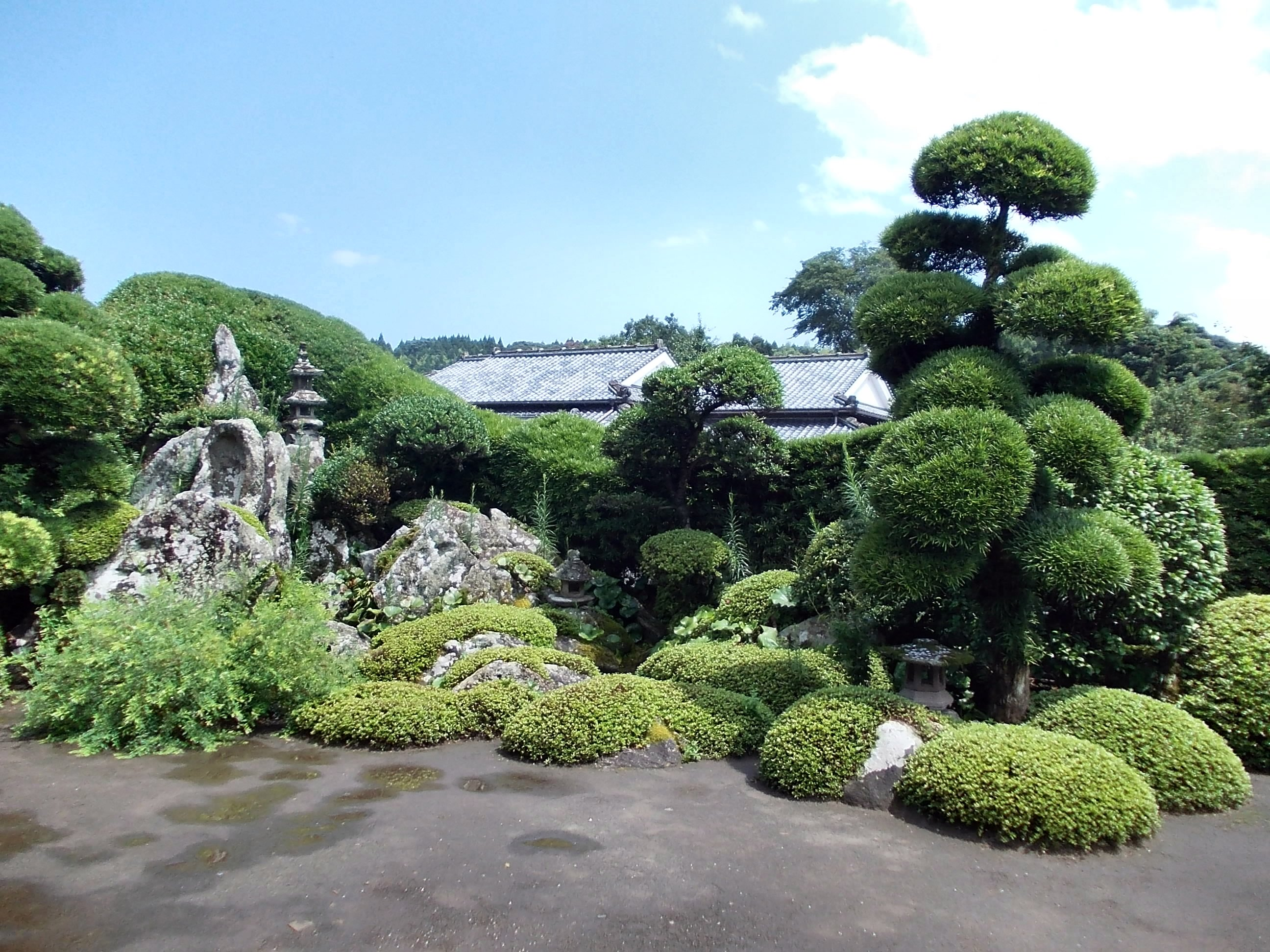 Japanese Garden at Sakurai Residence, Chiran, Kagoshima, Japan